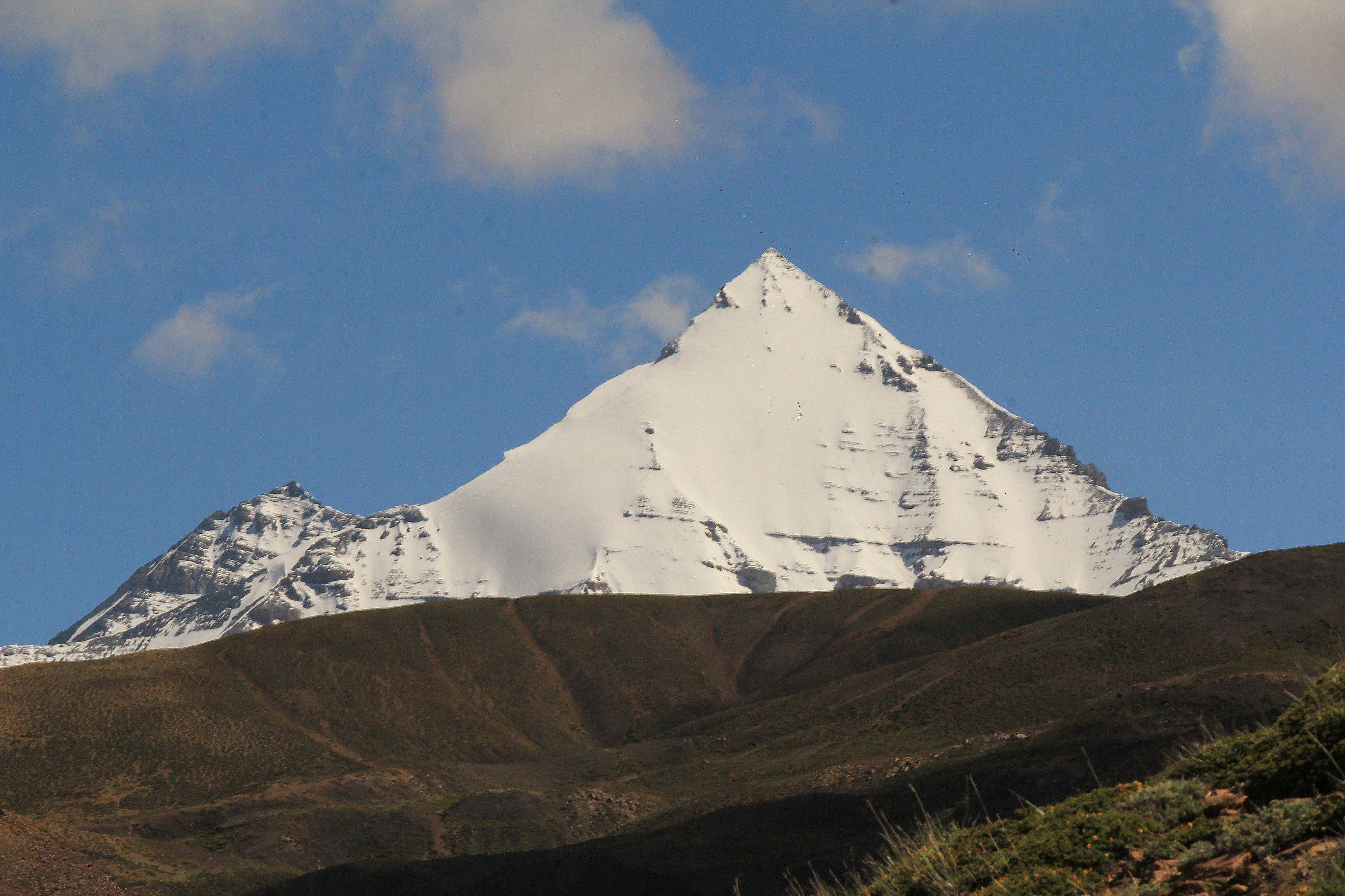 Chau Chau Kang Nilda(CCKN) peak.Chau means little girl or princess, Kang is a snow-capped mountain, Ni or Nima means sun and Da or Dawa means moon. So this is the princess mountain on which the sun & moon shine.